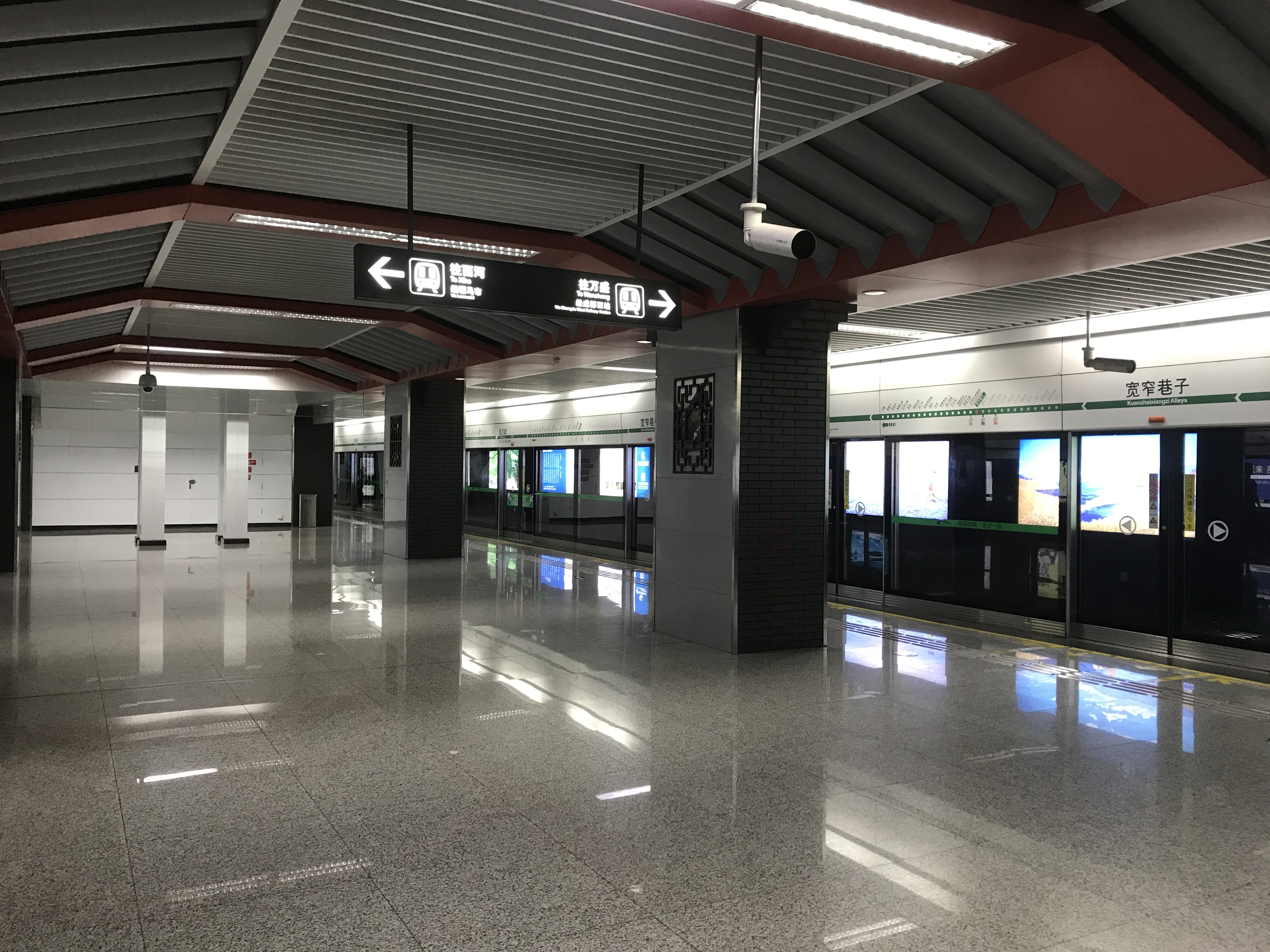 Platform of Kuanzhaixiangzi Alleys Station, Chengdu Metro